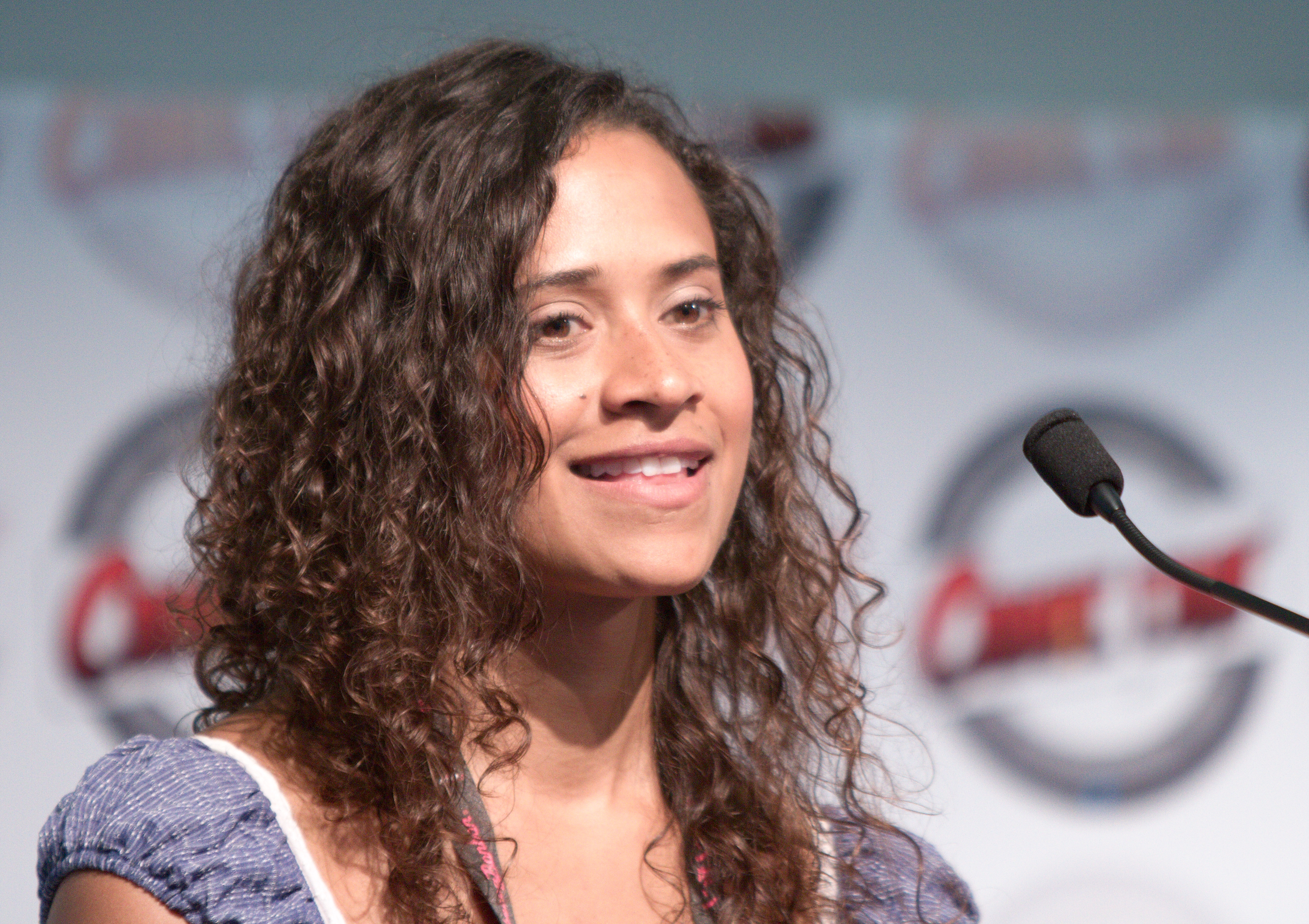 Angel Coulby and Katie McGrath's lecture at Japan Expo 2010 (Paris, France).